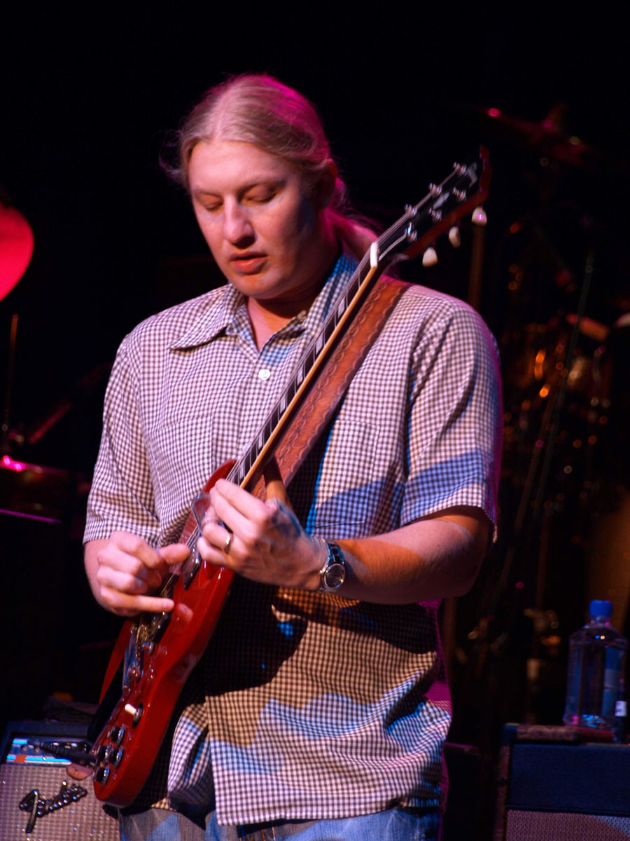 Derek Trucks playing slide with The Allman Brothers Band, Holmdel, New Jersey at the PNC Bank Arts Center